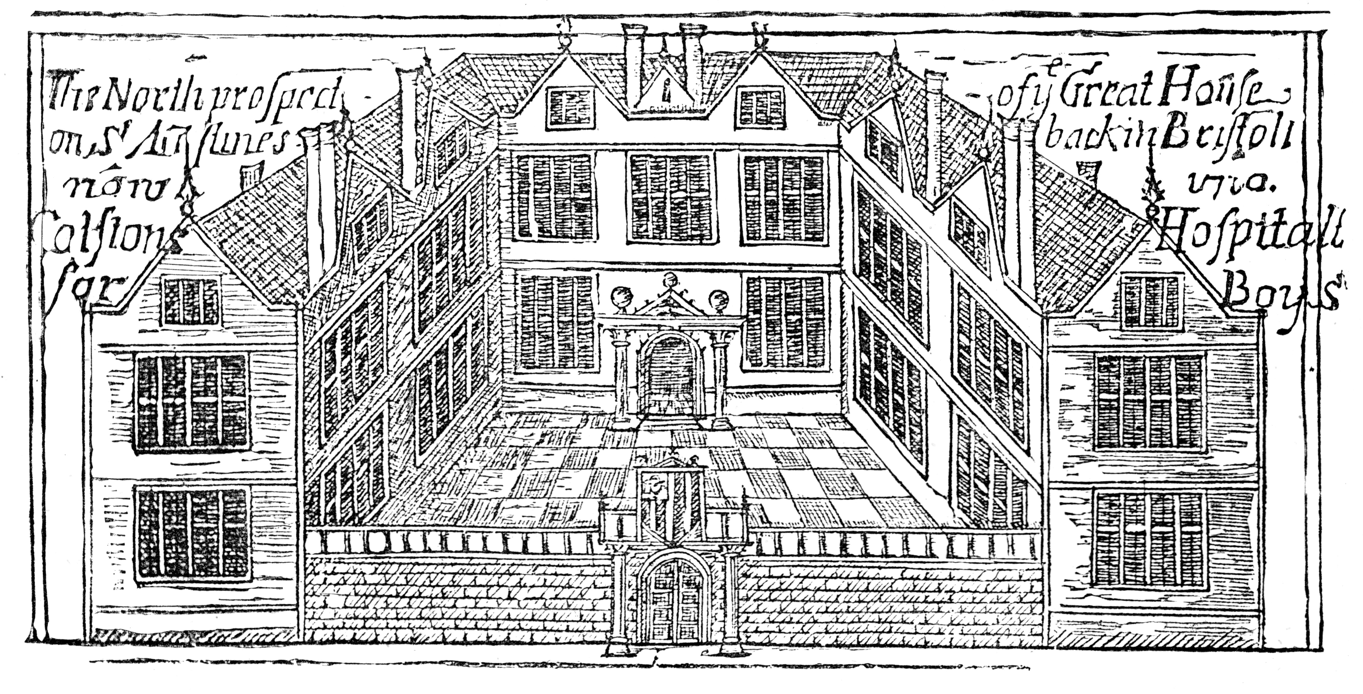 "The North Prospect of the Great House on St Augustines back in Bristoll, now Colstons Hospitall for Boys" A Tudor-era mansion known as the Great House, used by Queen Elizabeth I in 1574 on a visit to the city. Edward Colston established his on Saint Augustine's Back, Bristol, at the site of the later Colston Hall (built in the 1860s). Edward Colston's school for boys was housed in here between 1707 and 1861.